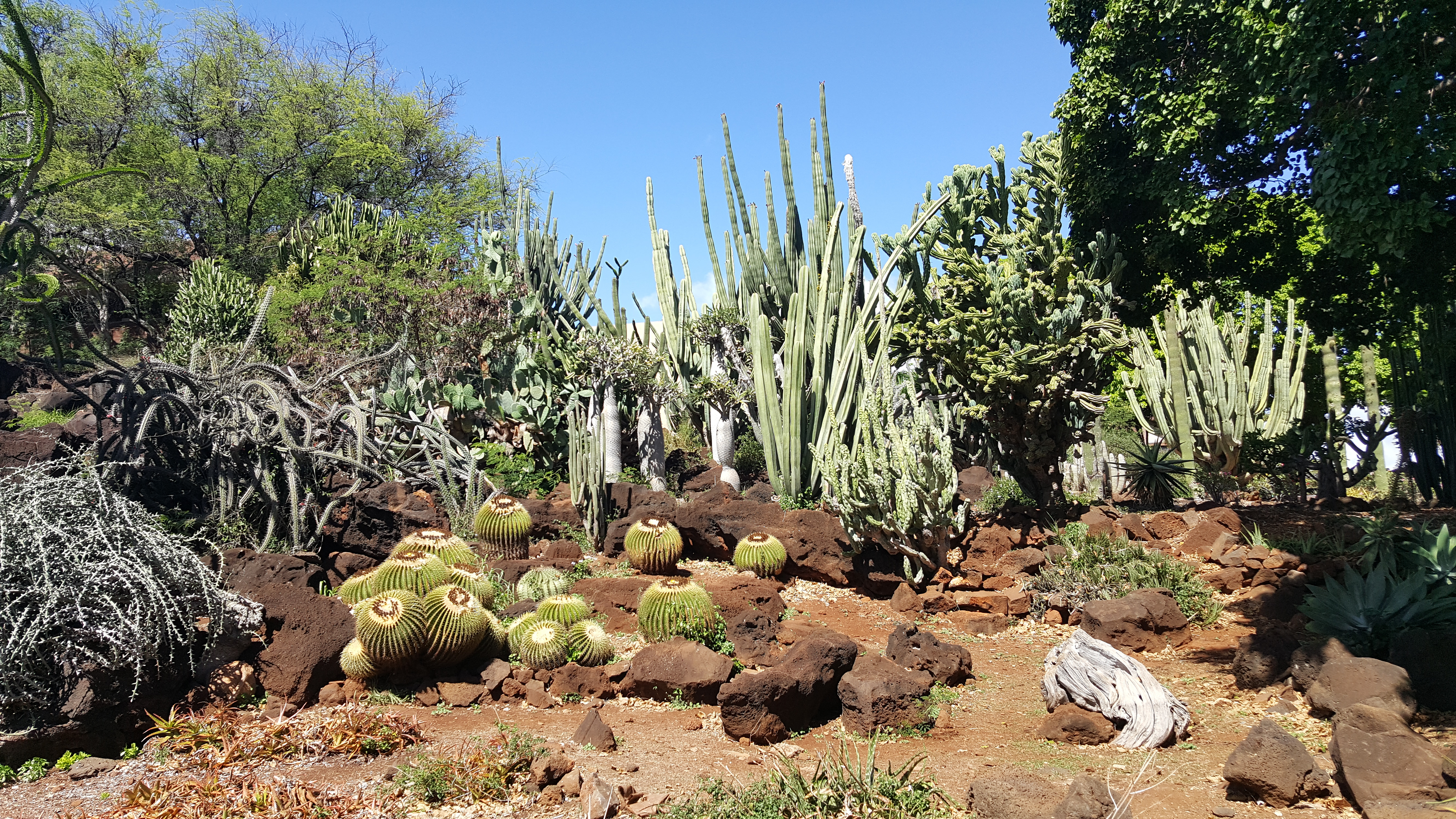 Cactus Garden at Kapiolani Community College (KCC). Located south of campus near parking lot C.